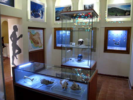 the second hall of the museum